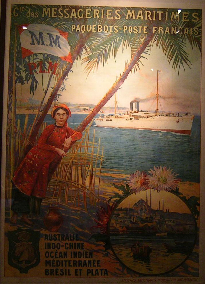 Poster-Messageries maritimes Photo personnelle (own work) de Marianna